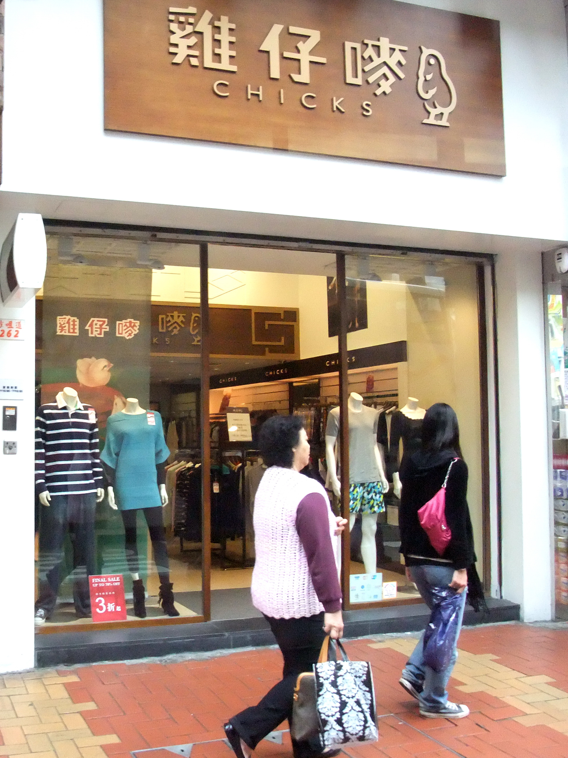 Chicks retail shop at 262 Sha Tsui Road, Tsuen Wan, Hong Kong.